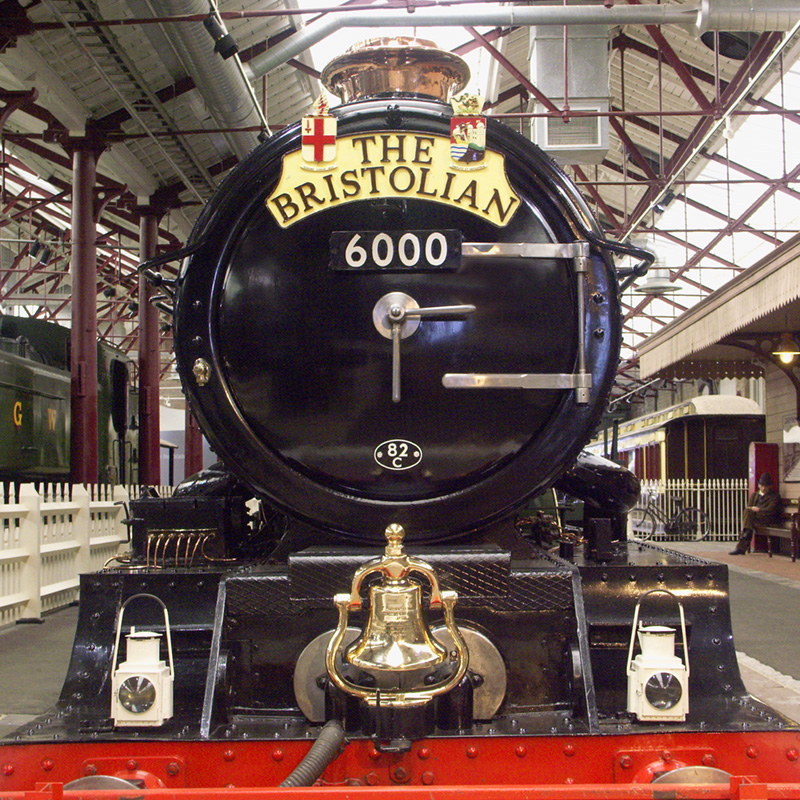 The GWR steam engine King George V at Swindon Steam Railway Museum, wearing a nameplate as The Bristolian Source: WyrdLight